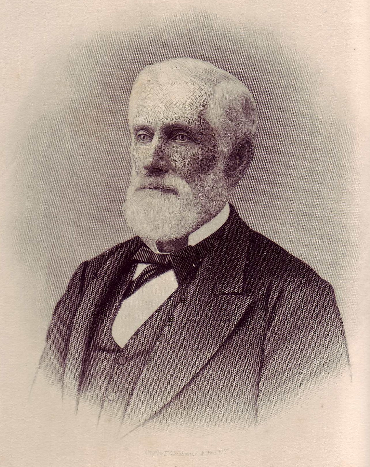 Portrait of L.P. Grant from scanned from 1902 book in the public domain